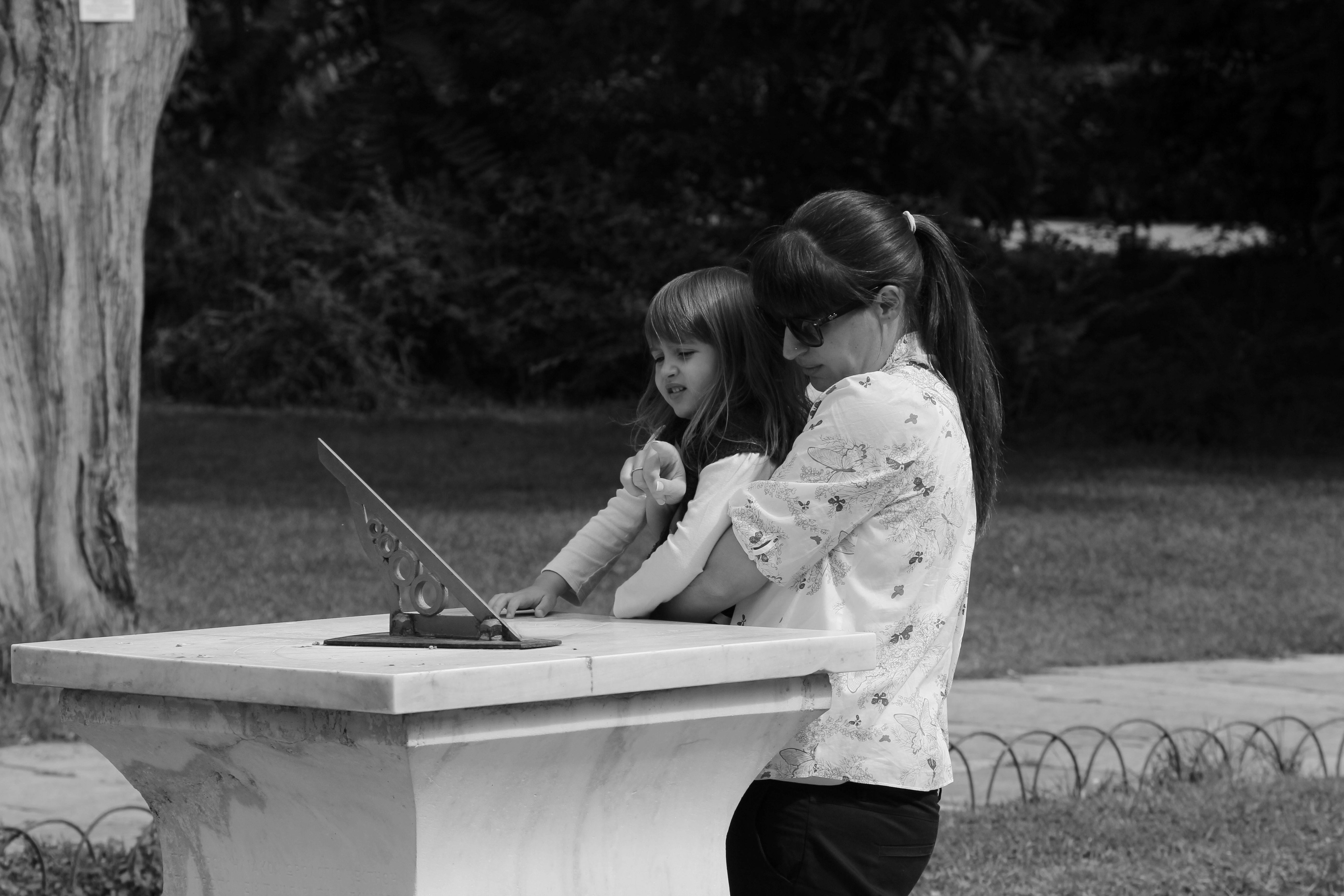 A kid and a woman looking at a sundial installed at the National Gardens of Athens in Greece, previously known as the Royal Gardens. Photographed with: Canon EOS 60D APS-C DSLR camera Canon EF 135mm f/2.8 Soft-focus lens 1/400 f/8 ISO-100 Exposure compensation: -1 EV Full-frame equivalent field of view: 135mm x 1.6 = 216mm Full-frame equivalent depth of field: f/8 x 1.6 = f/12.8 Original camera JPEG, black & white (also in color RAW)